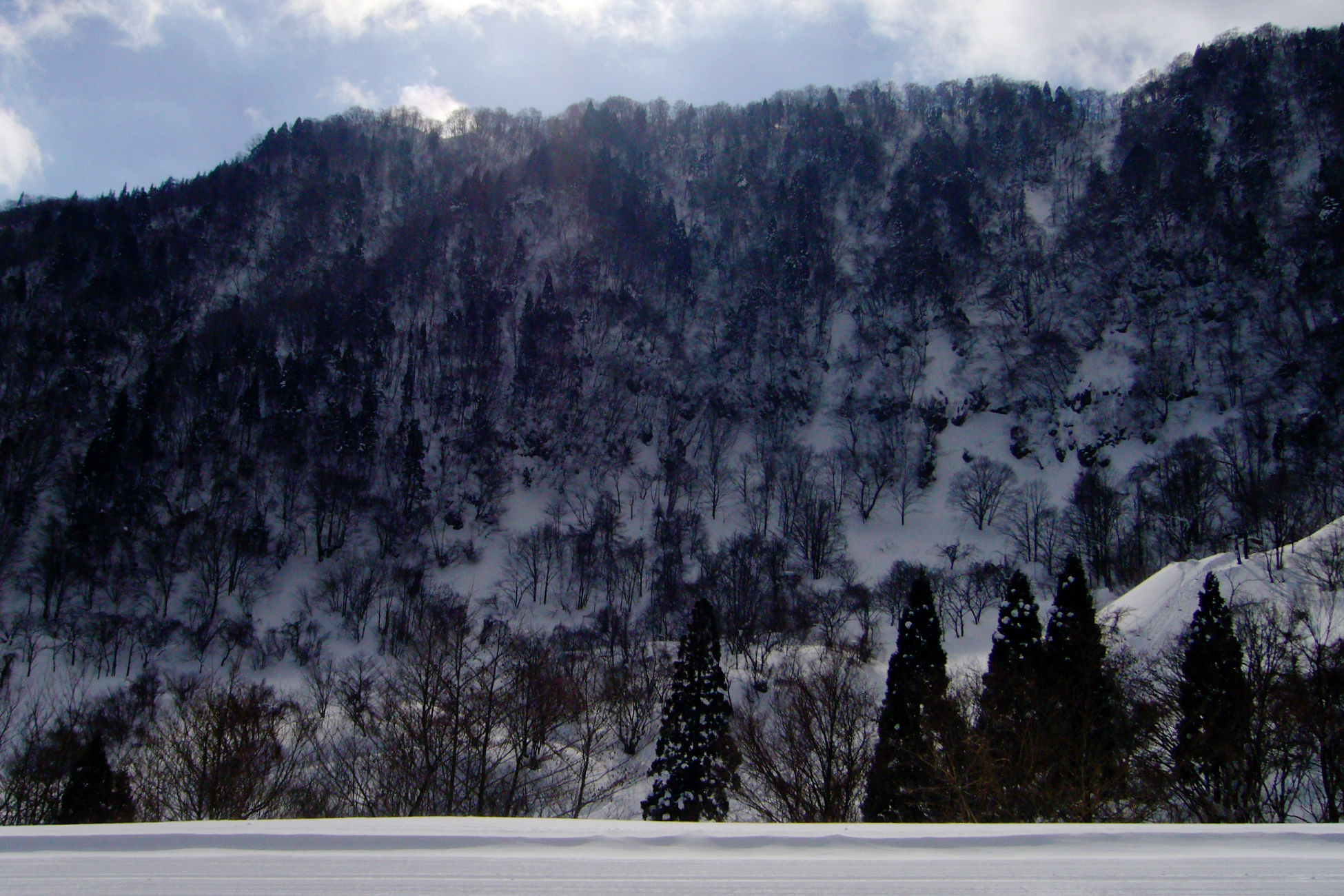 Mount Hyōno at Hyonosen International Ski resort in Yabu, Hyogo prefecture, Japan